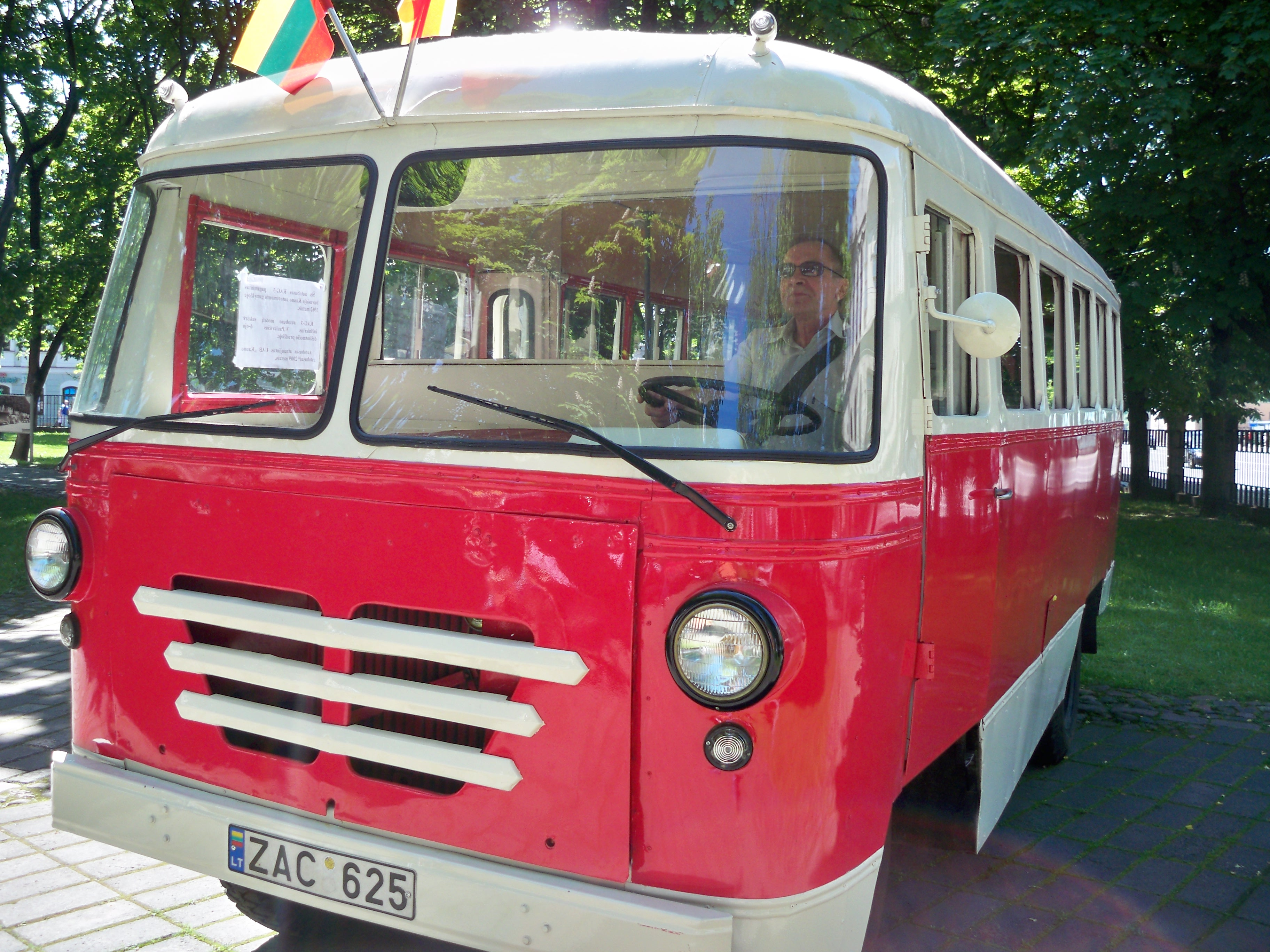 KAG-3 bus in Kaunas.